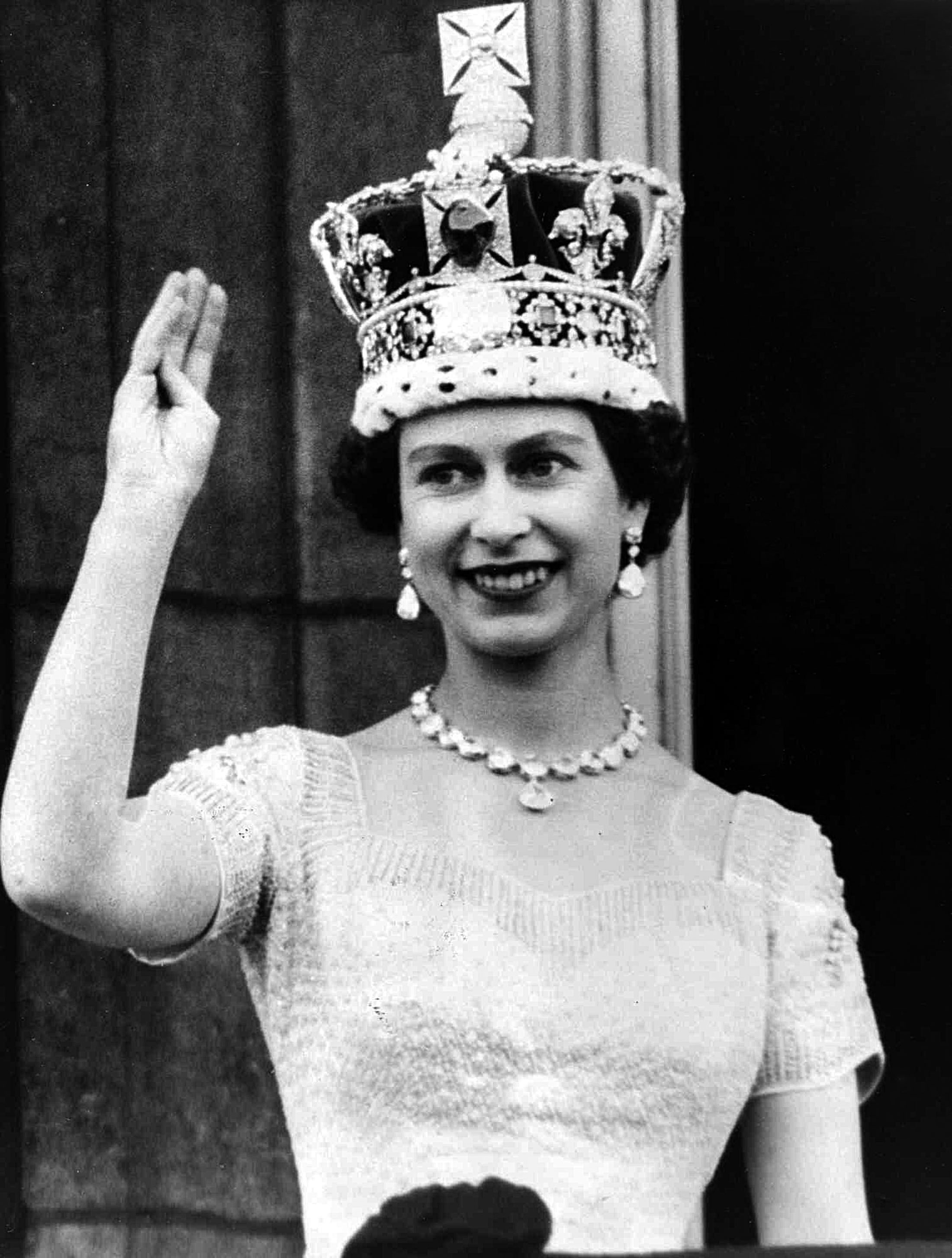 Daily Herald Archive at the National Media Museum Princess Elizabeth was crowned Queen Elizabeth II on 2 June 1953. The ceremony took place in Westminster Abbey and was the first televised Coronation. She was crowned Queen of the United Kingdom, Canada, Australia, New Zealand, South Africa, Ceylon and Pakistan.